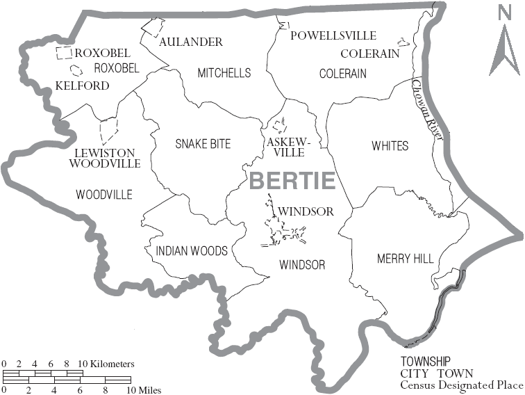 Map of Bertie County, North Carolina, United States with township and municipal boundaries